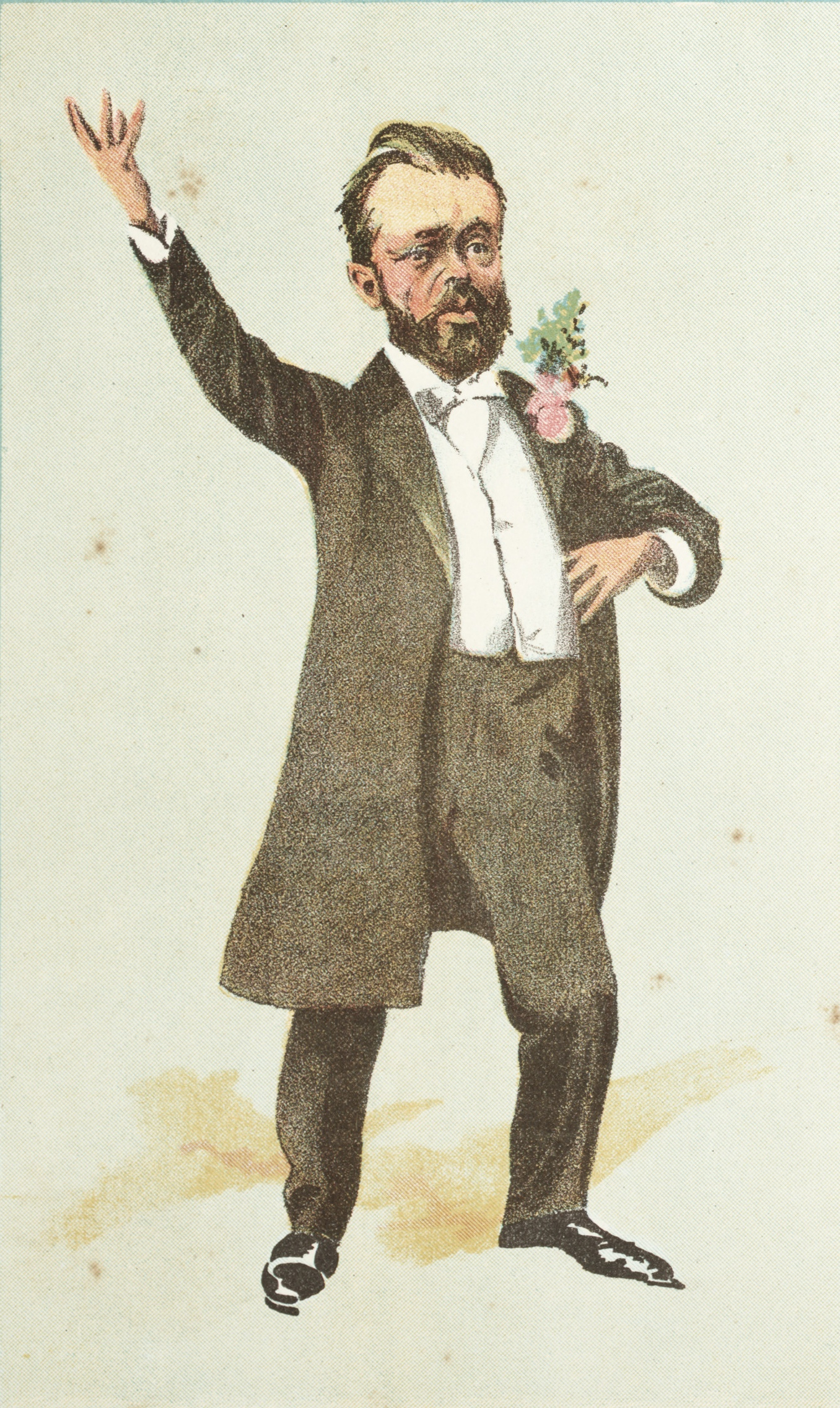 Caricatures, with names and nicknames of: "Mr Speaker" (Sir G M O'Rorke), "Mines" (The Hon A J Cadman), "Ironsand" (Mr E M Smith), "Hard to drive" (Mr W Crowther), "The Doctor" (Dr Newman), "The white flower" (Major Steward), "The Patriarch" (Mr A Saunders), "Haere Mai" (Mr Hone Heke).